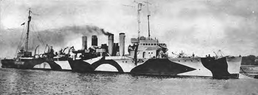 Destroyer